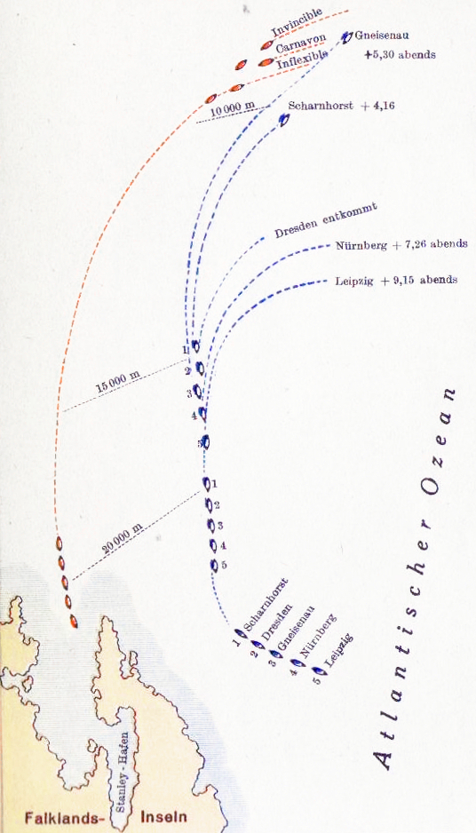 Map showing the Battle of the Falkland Islands, 1914.